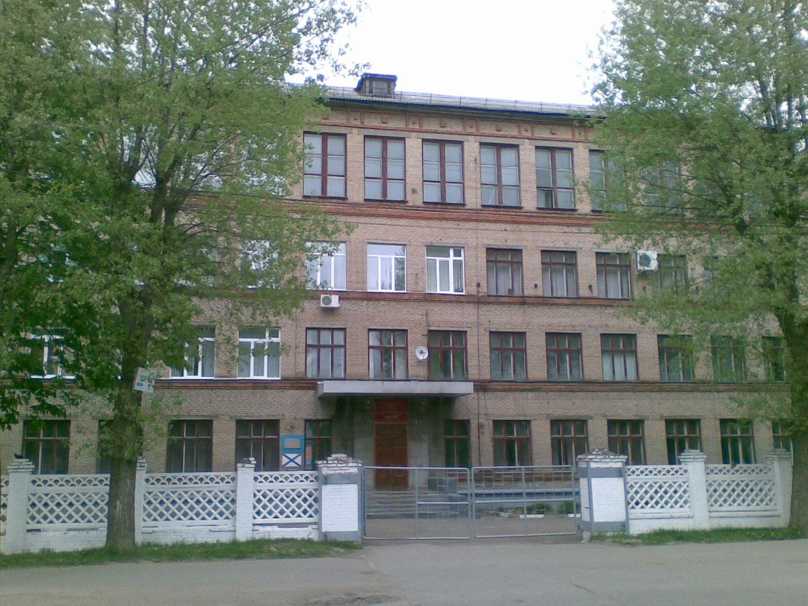 Novomoskovsk licey. Novomoskovsk, Tula oblast, Russia.